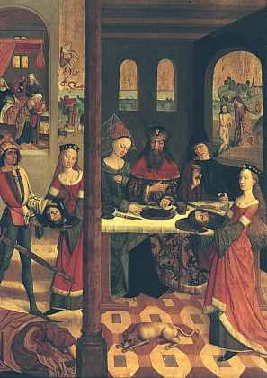 one of the outer panels from the 1482 altar at the St. Johanneskirche, Lüneburg, Germany.